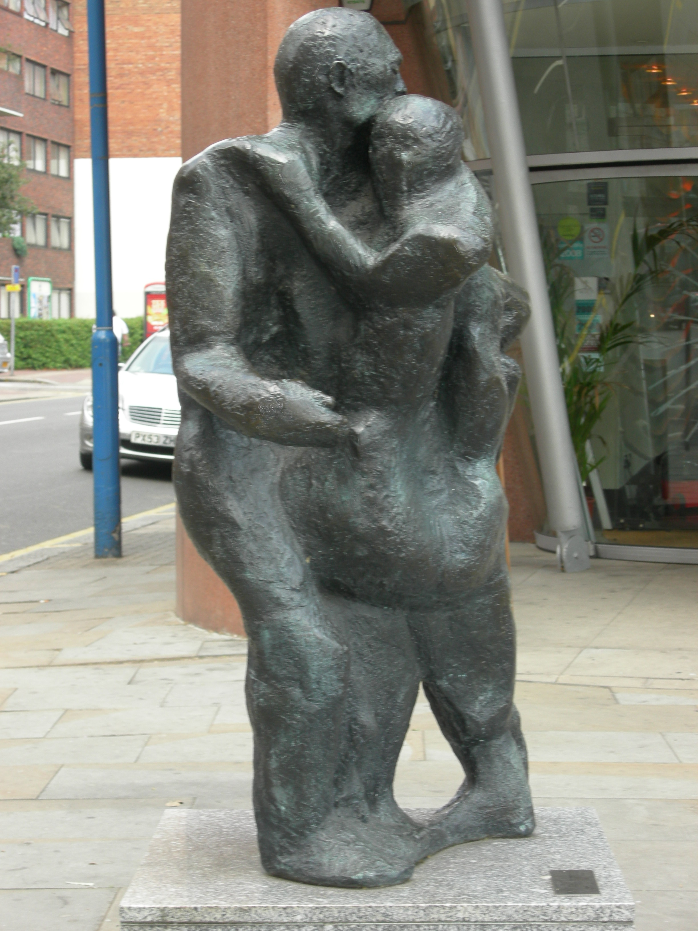 Load sculpture in Putney, London